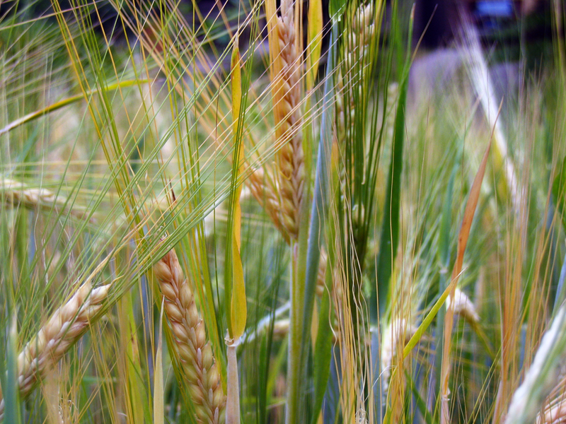 Harrington 2-row malting Barley. It turns out that it's hard to buy malting barley if you're not a farmer. Thankfully a farmer in MT sold me these via a home brew forum.